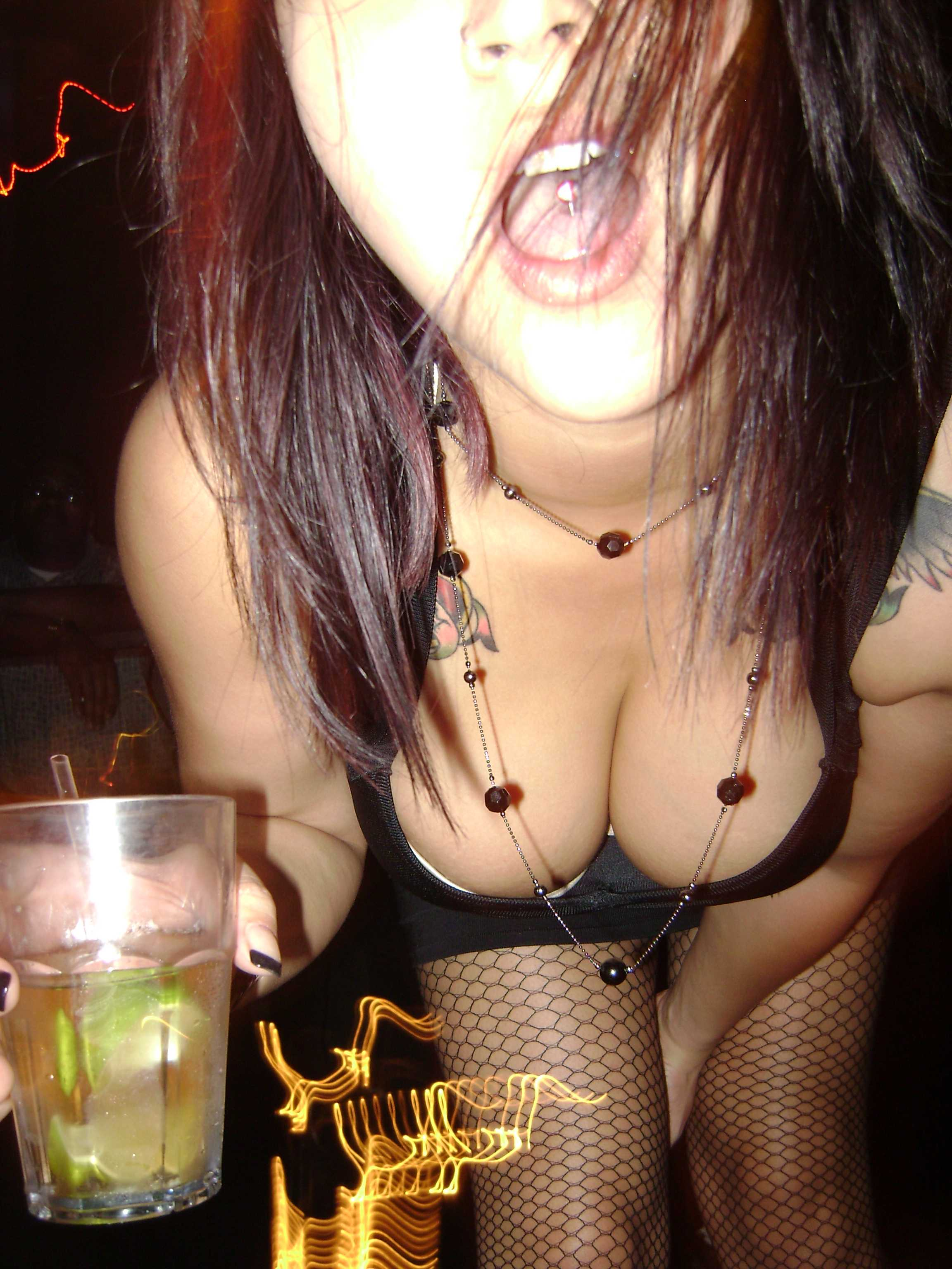 Tawny Kate-aen's photostream